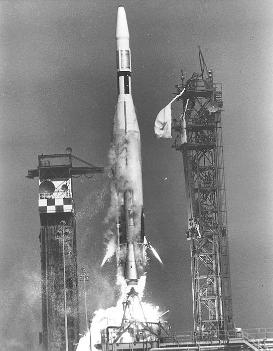 ATLAS-AGENA B LAUNCH OF RANGER IV FROM PAD 12 - 23 April 1962